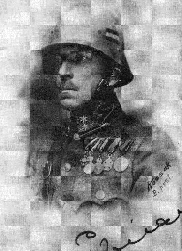 Pál Prónay, leader of the White Terror in Hungary 1919-1921